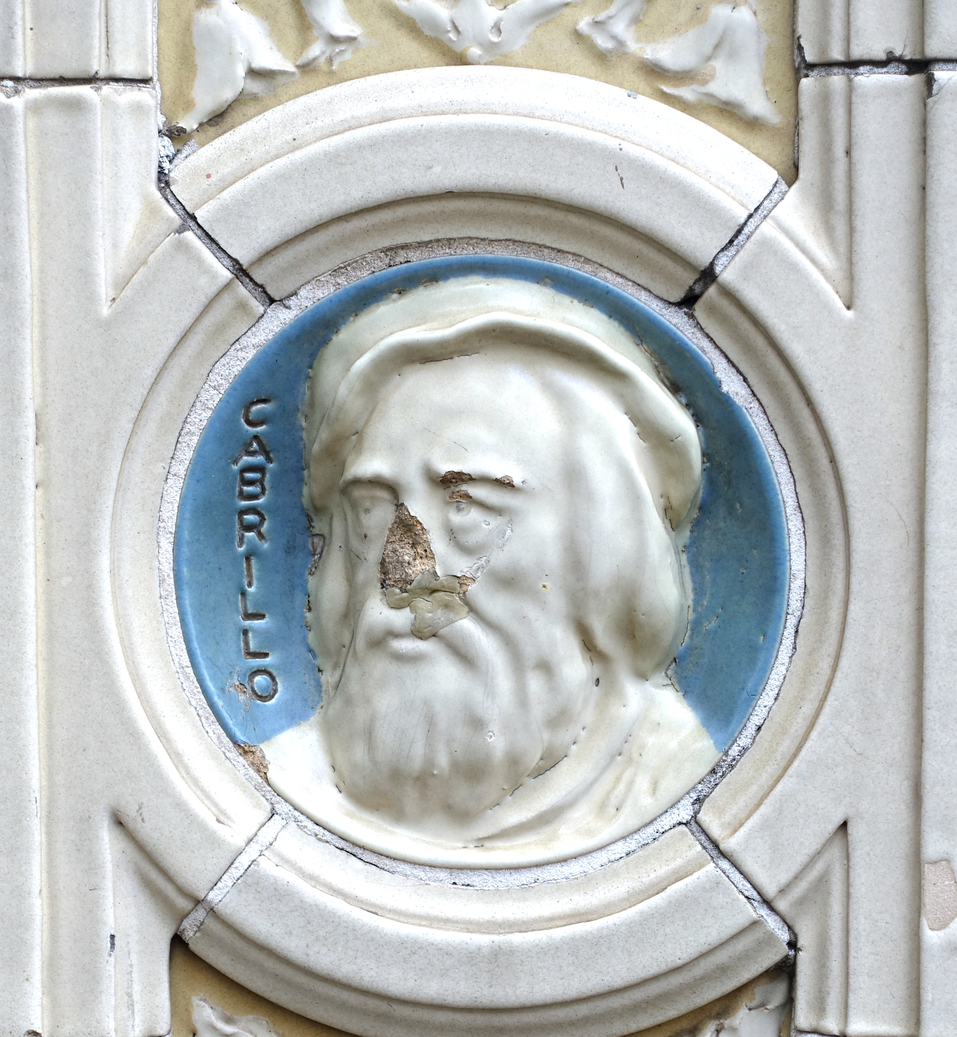 Native Sons Building - 414 Mason Street, San Francisco, California, USA.